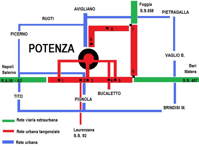 percorso